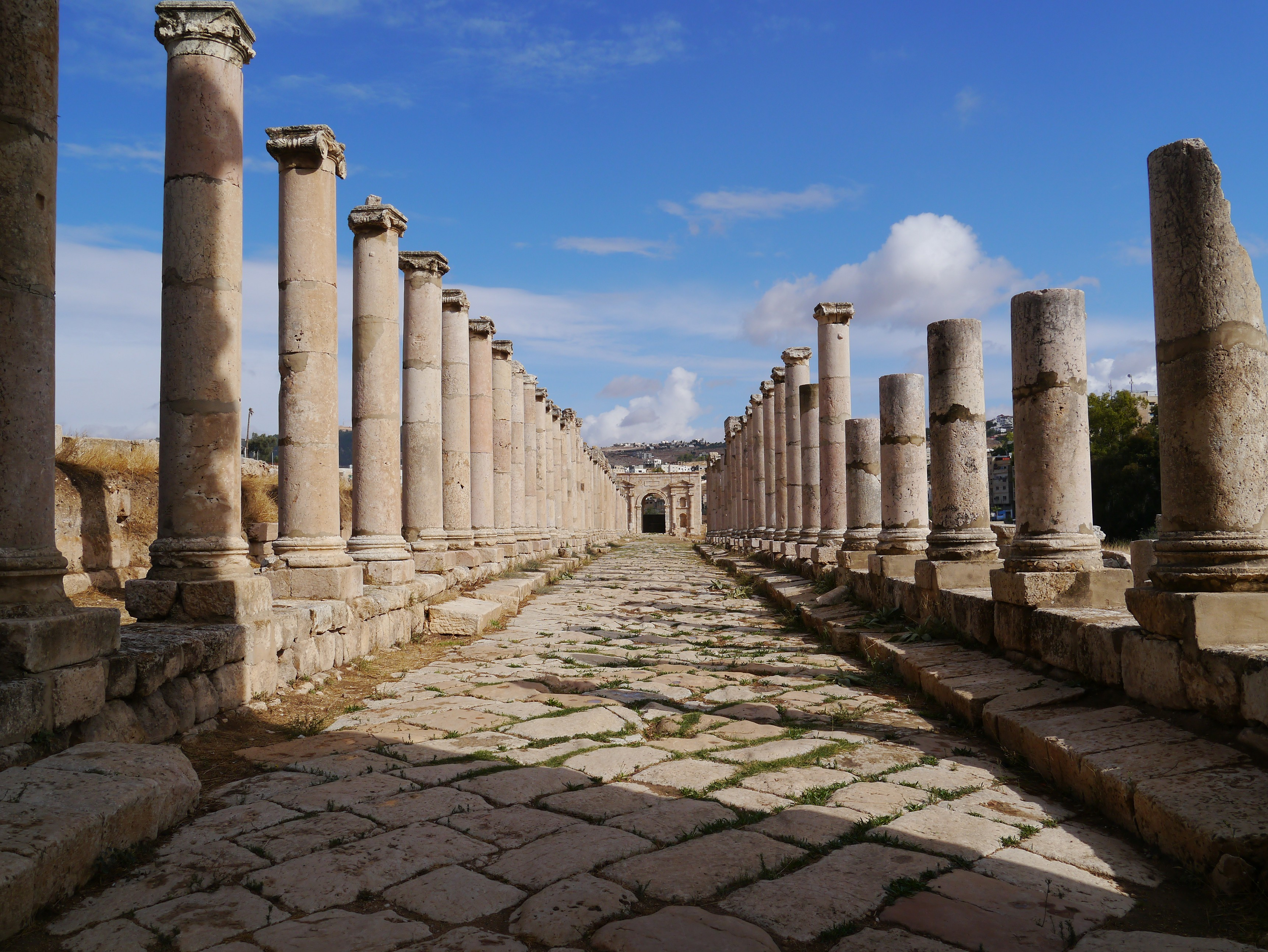 the Cardo, Gerasa/Jerash, North western Jordan